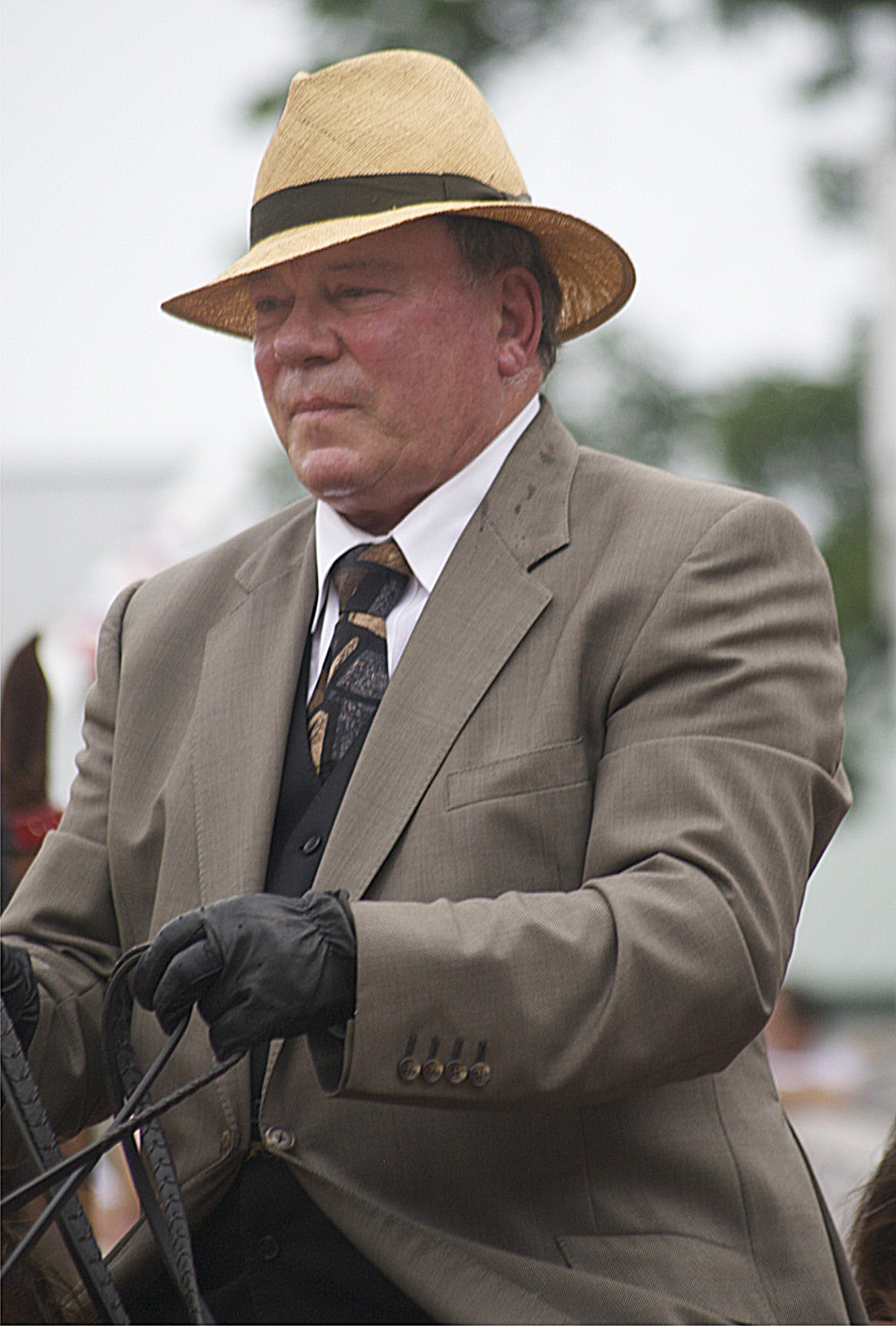 William Shatner